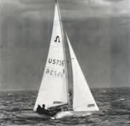 Kostecki, Billingham and Bayliss World Champion Soling 1988